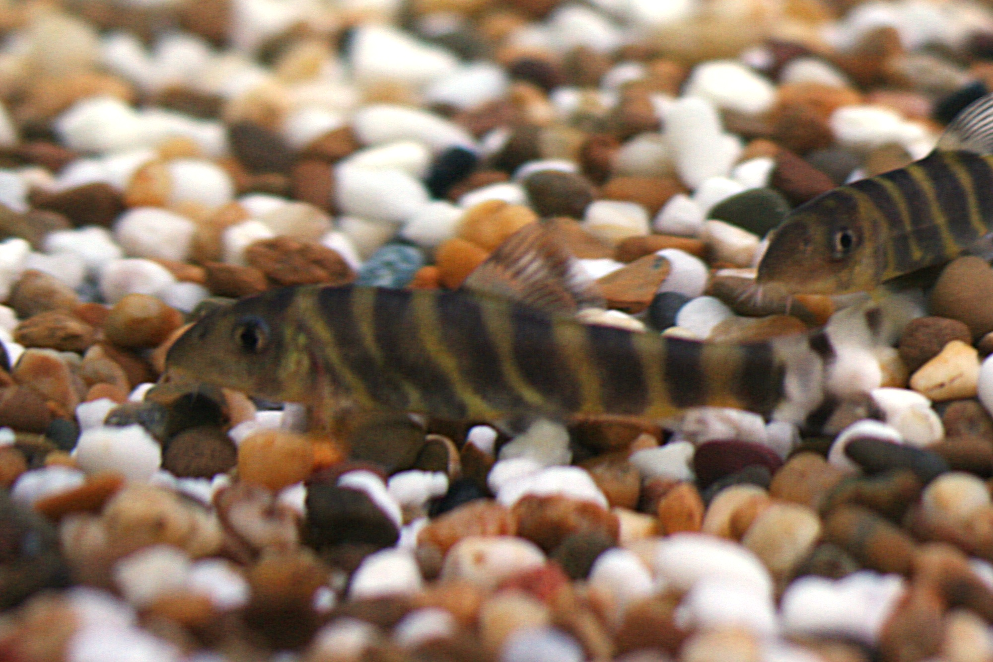 Bengal loach Botia dario. Size about 5cm SL.